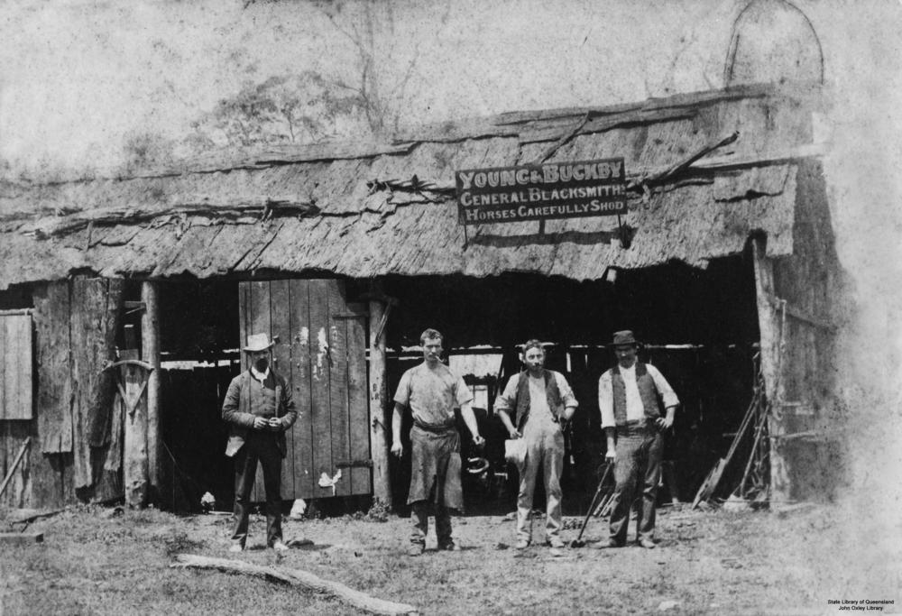 Blacksmith shop on Oxley Road, Oxley, Brisbane, Queensland, ca.1888 Men standing outside the Young and Buckley Blacksmith shop on Oxley Road, Oxley, Brisbane. The shop of timber slab construction was situated below the Oxley Hotel (Description supplied with photograph).